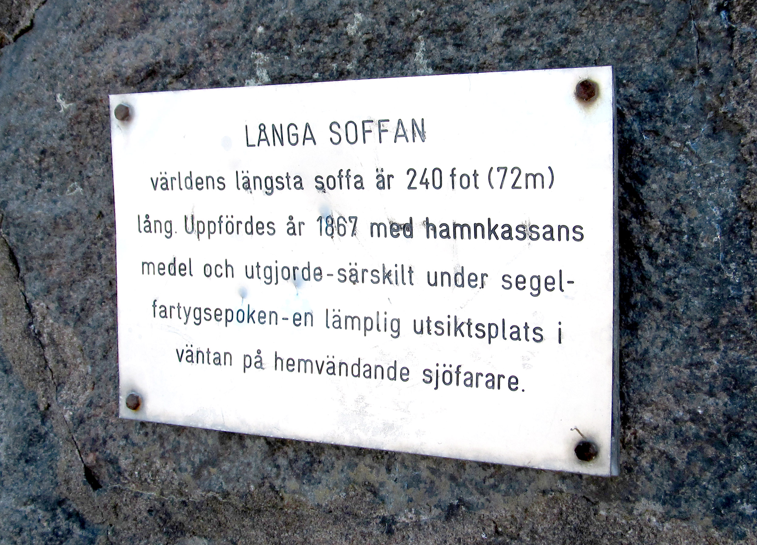 A plaque at Långa soffan (Swedish for "the Long sofa"), a wooden bench overlooking Oskarshamn harbour, Sweden. The text roughly translates to "THE LONG SOFA. The world's longest sofa is 240 feet (72 m) long. It was erected in 1867 using port treasury funds. It serviced as a good lookout point when anticipating returning sailors, especially during the Age of Sail.